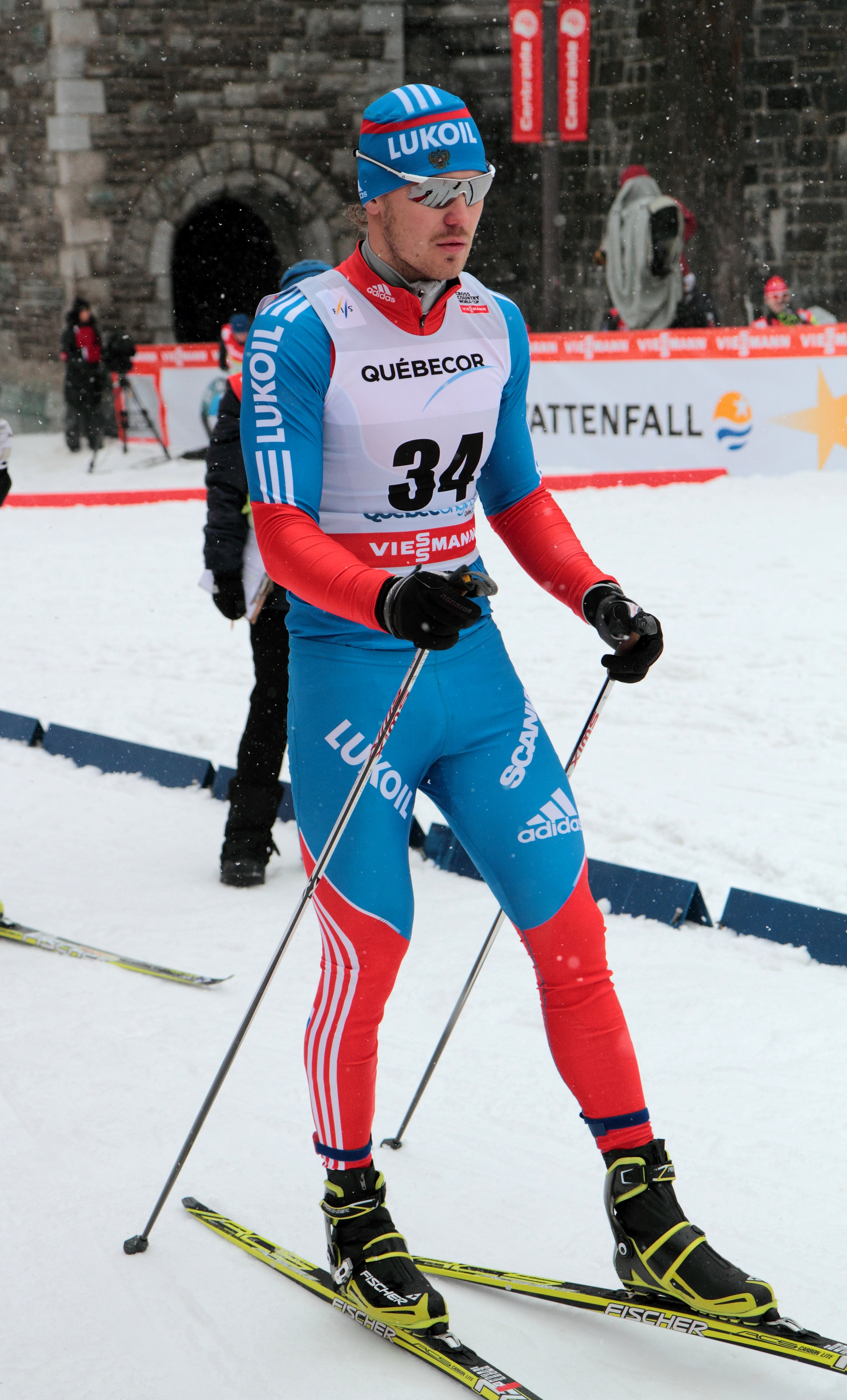 Mikhail Jun. Devjatiarov, FIS Cross-Country World Cup 2012, Quebec, Canada.